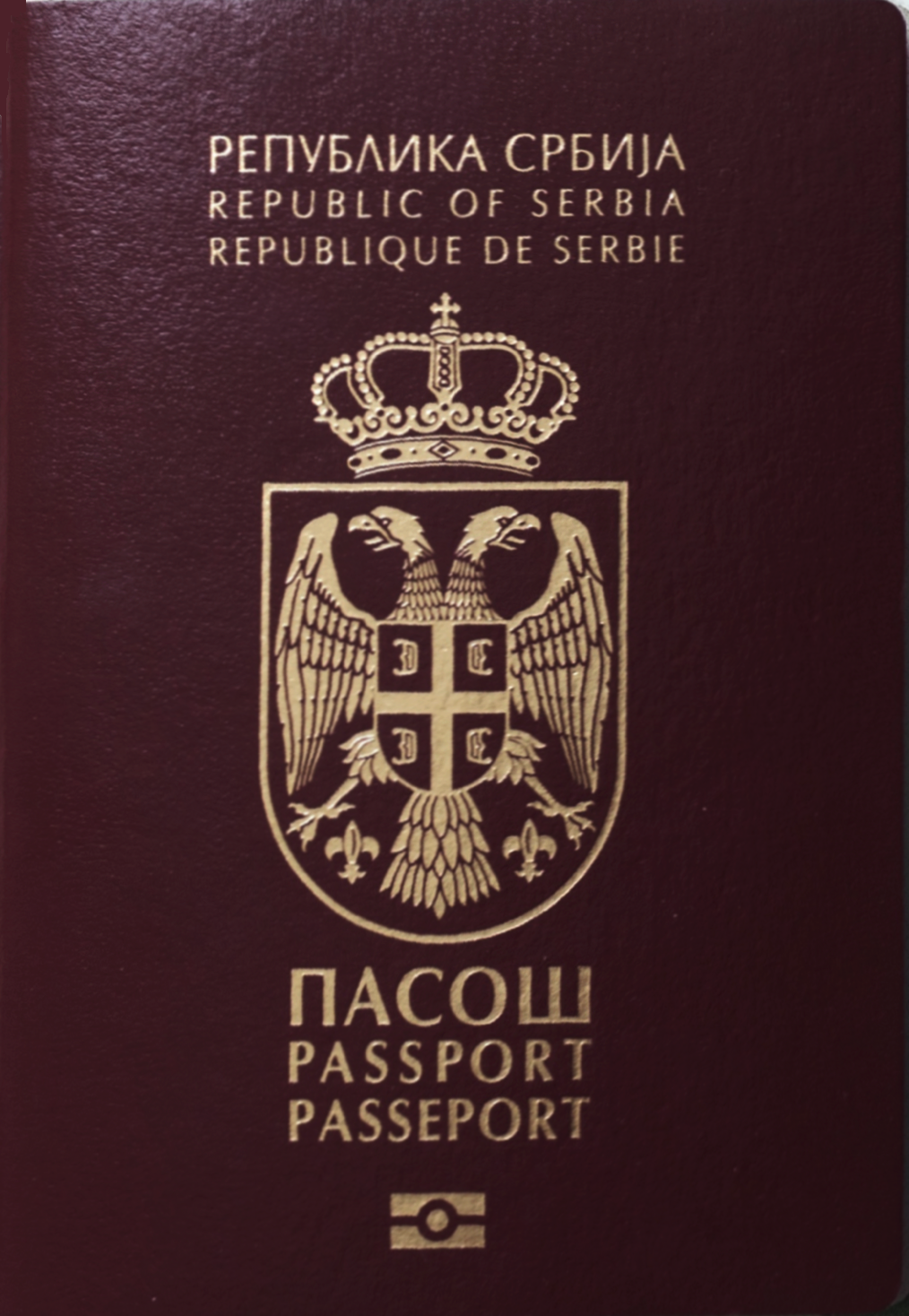 Cover of an ordinary Serbian passport.